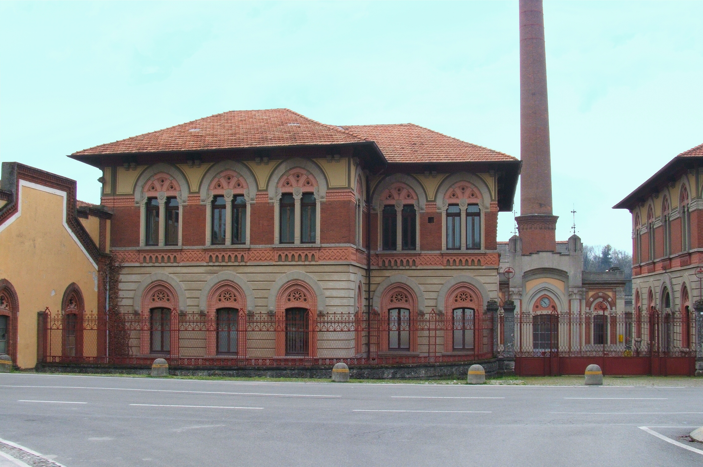 Crespi d'Adda (Bergamo) Italy, offices and hall door built in 1924